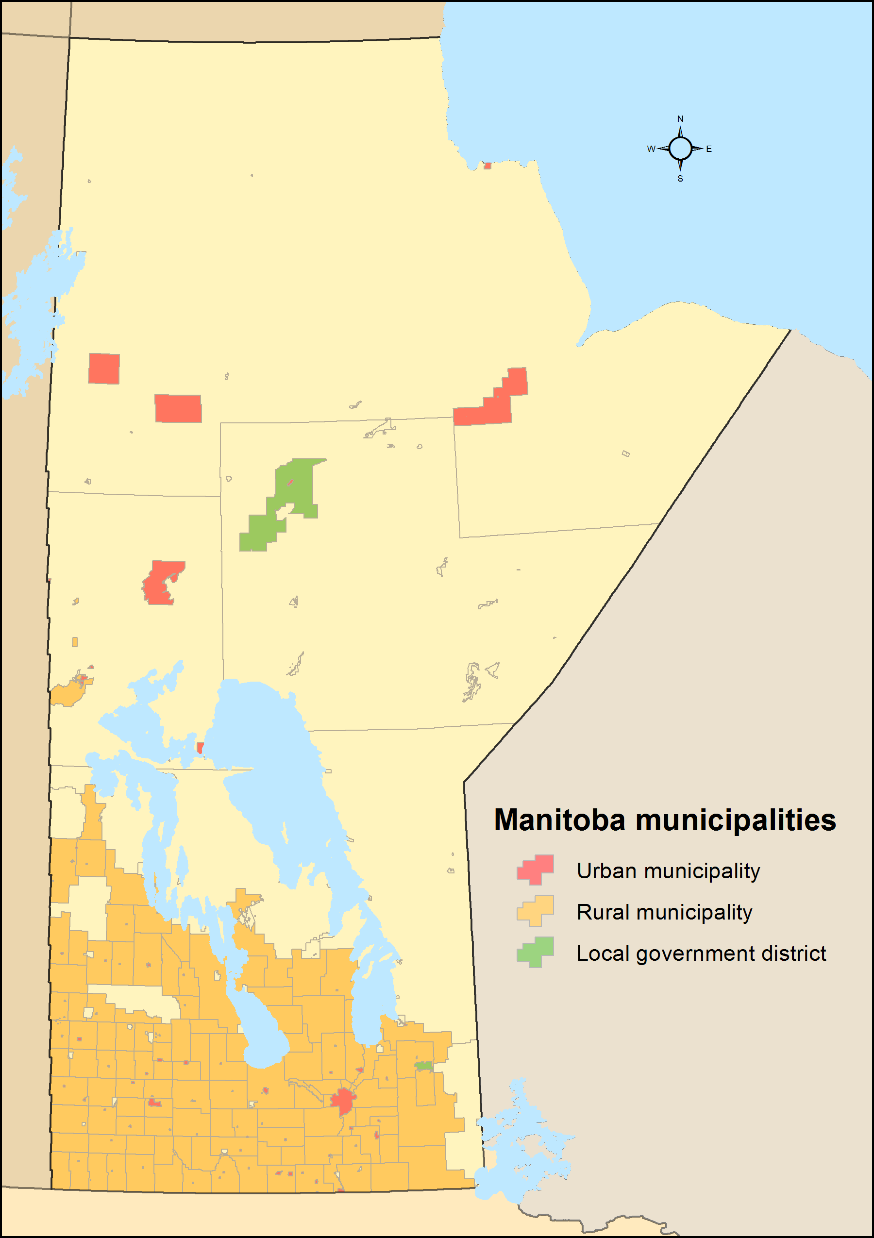 Distribution of Manitoba's 197 municipalities (79 urban municipalities, 116 rural municipalities and 2 local government districts) utilizing Statistics Canada's census subdivisions from the 2011 census